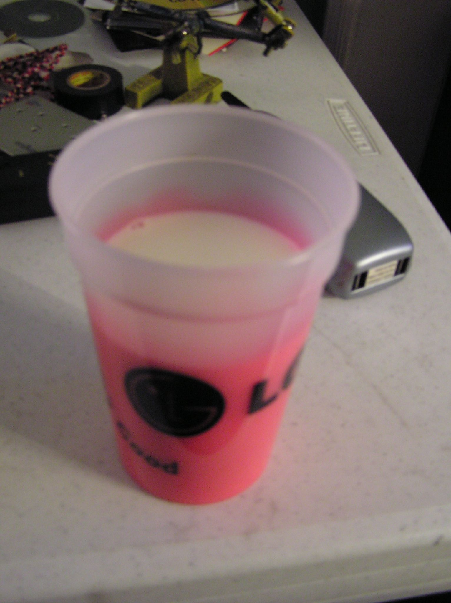 LG gave away these cups at Digital Life 2006 in NYC